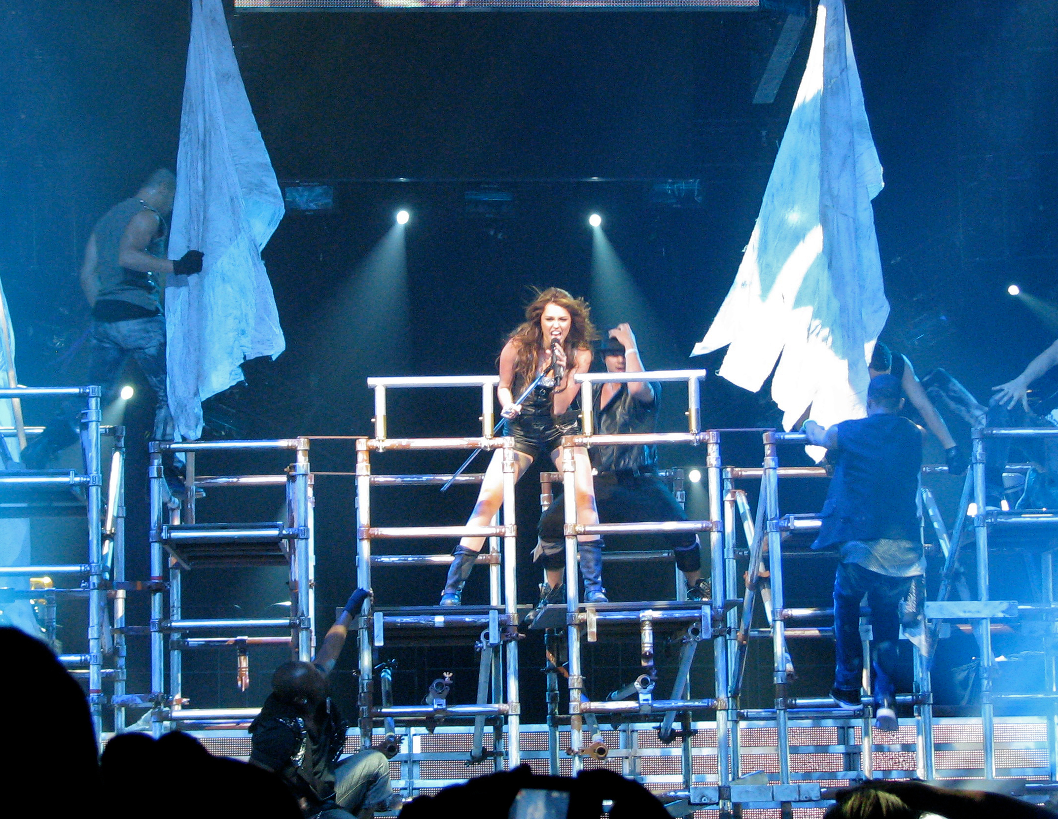 Miley Cyrus performs during her Portland, Oregon stop of her Wonder World Tour.